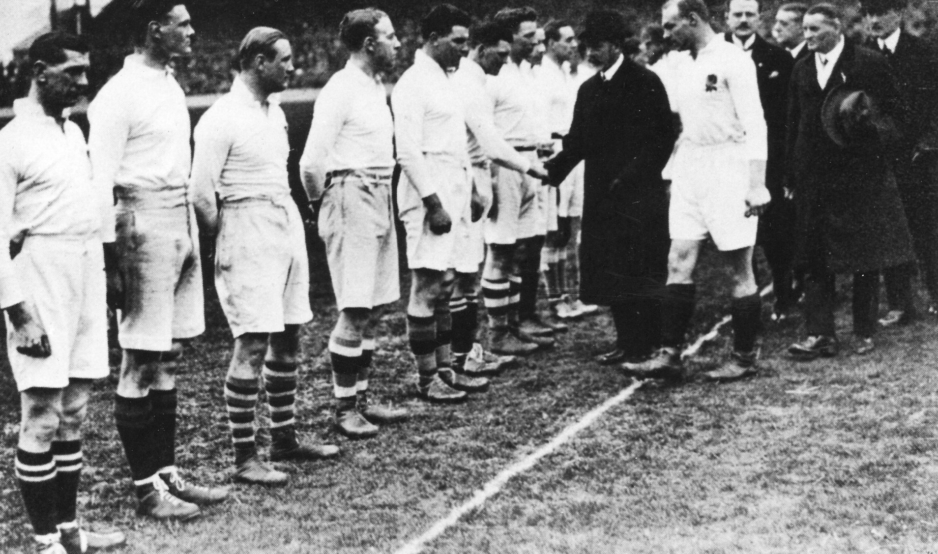 English Rugby Union Football